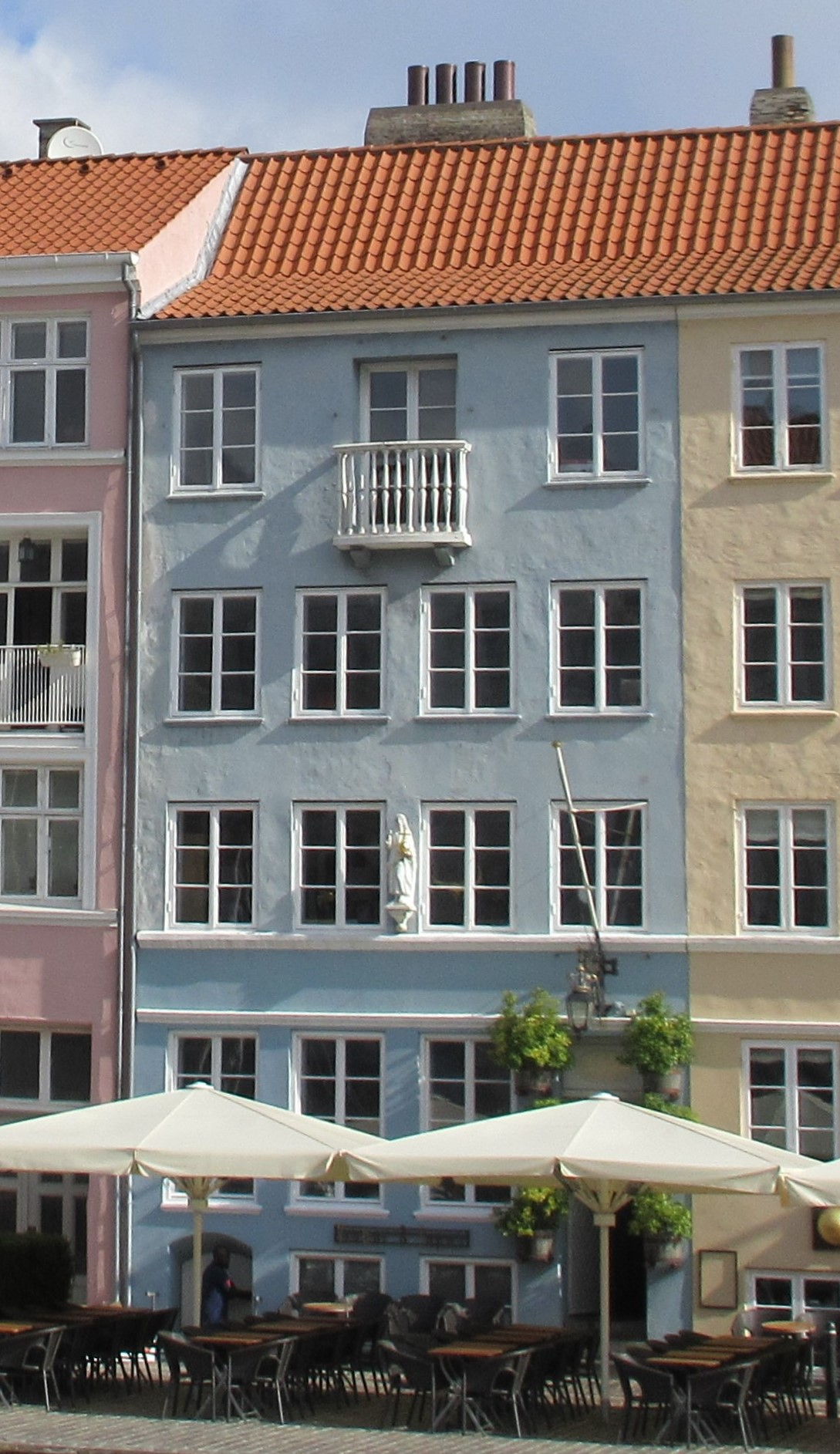 Nyhavn 59 in Copenhagen, Denmark